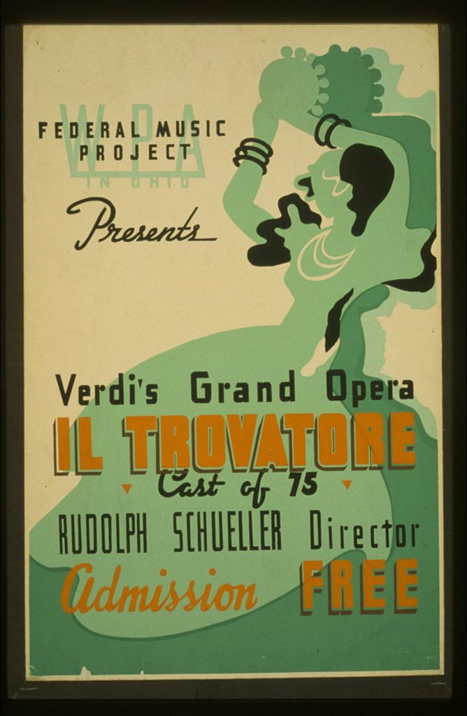 WPA in Ohio Federal Music Project presents Verdi's grand opera "Il trovatore" Cast of 75 : Rudolph Schueller director.